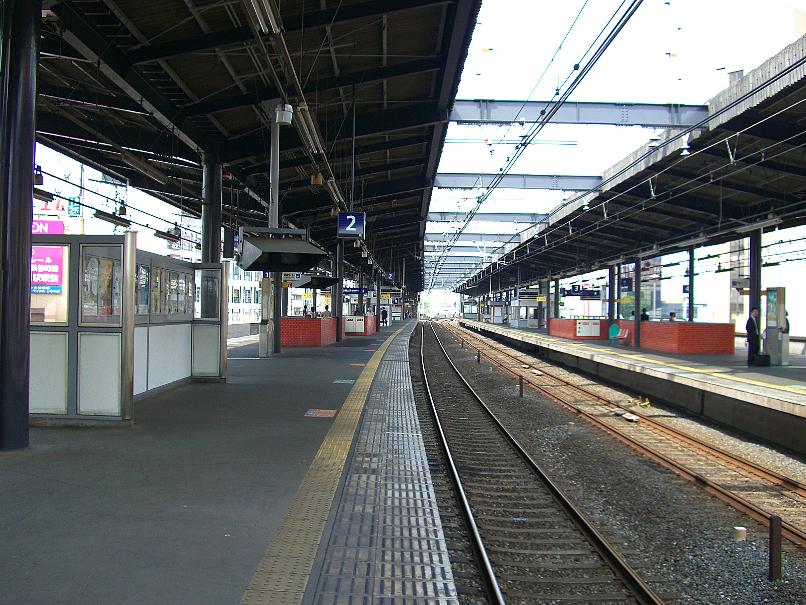 Keihan Electric Railway Keihan Main Line Moriguchishi Station Building Platform